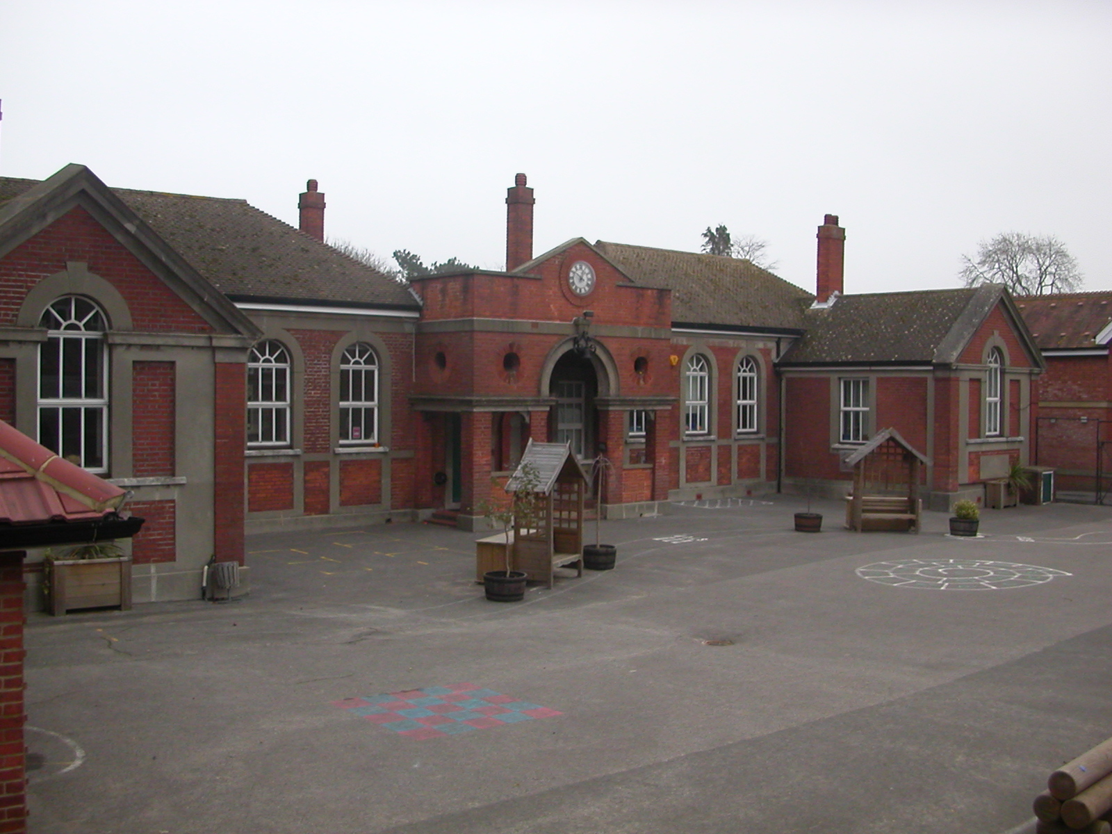 Hassocks Infant School (front, including playground).